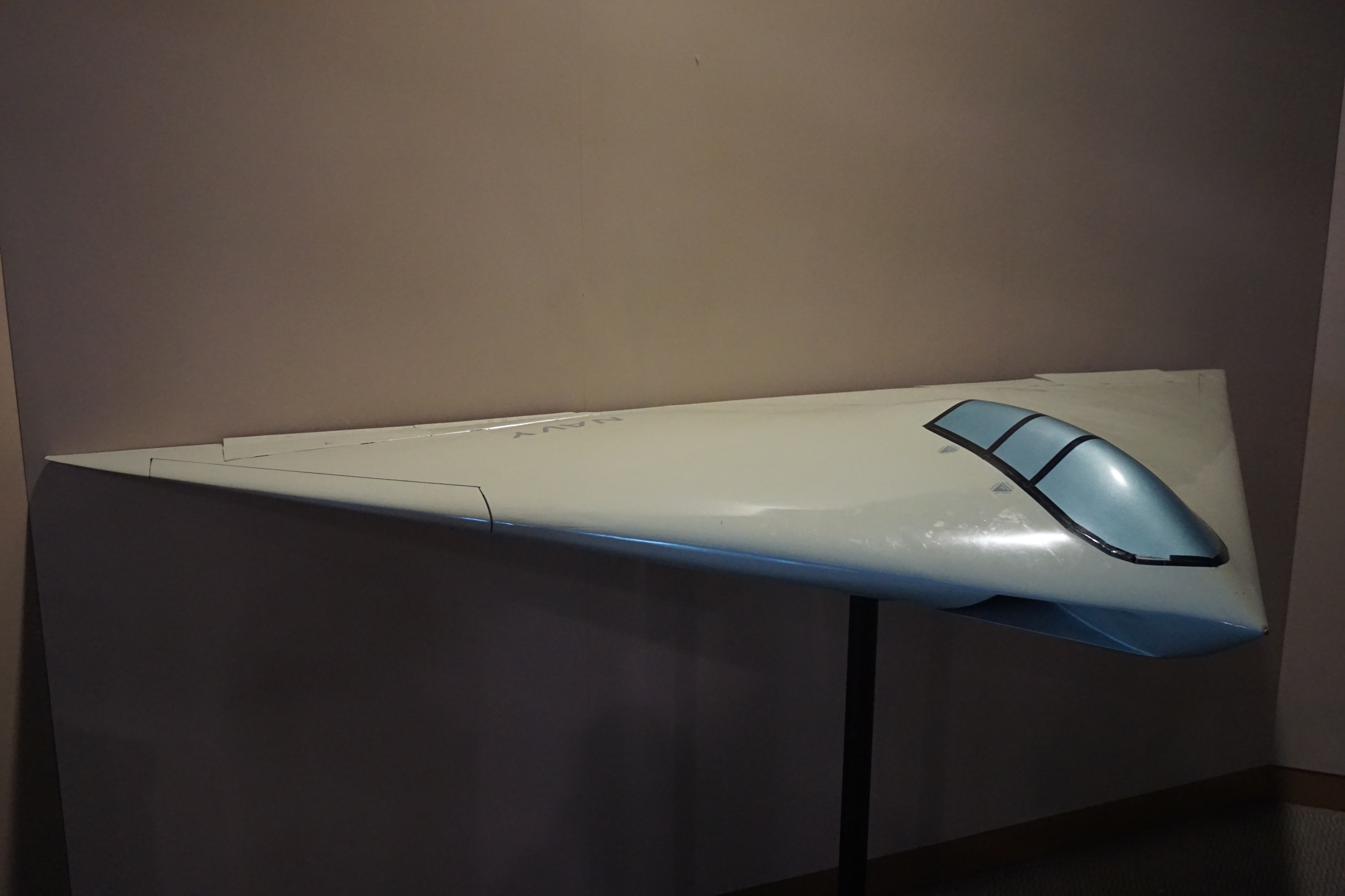 A McDonnell Douglas/General Dynamics A-12 Avenger II model on display at the Frontiers of Flight Museum at Dallas Love Field in Dallas, Texas (United States).